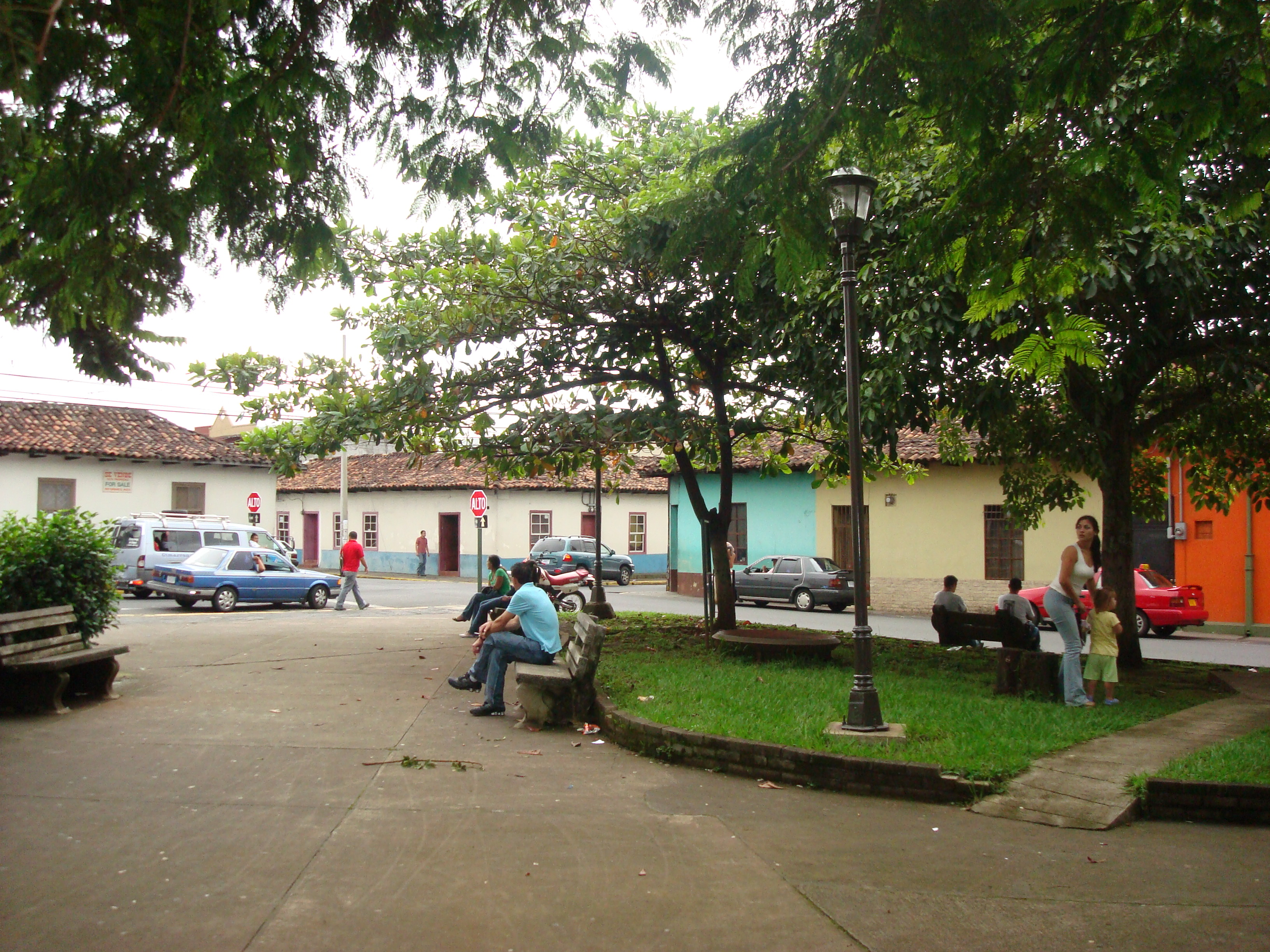 Traditional Houses